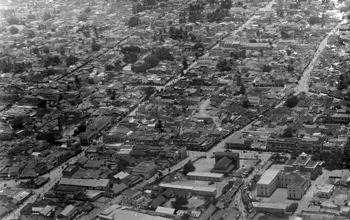 Coimbatore - Townhall area. This ariel view was taken sometime between late 30's till mid-40's. This is the oldest part of Coimbatore and was the principle shopping district till 80's. Many of those big concrete buildings still exists and were there since 1920's. Move cursor over image to check the boxes.